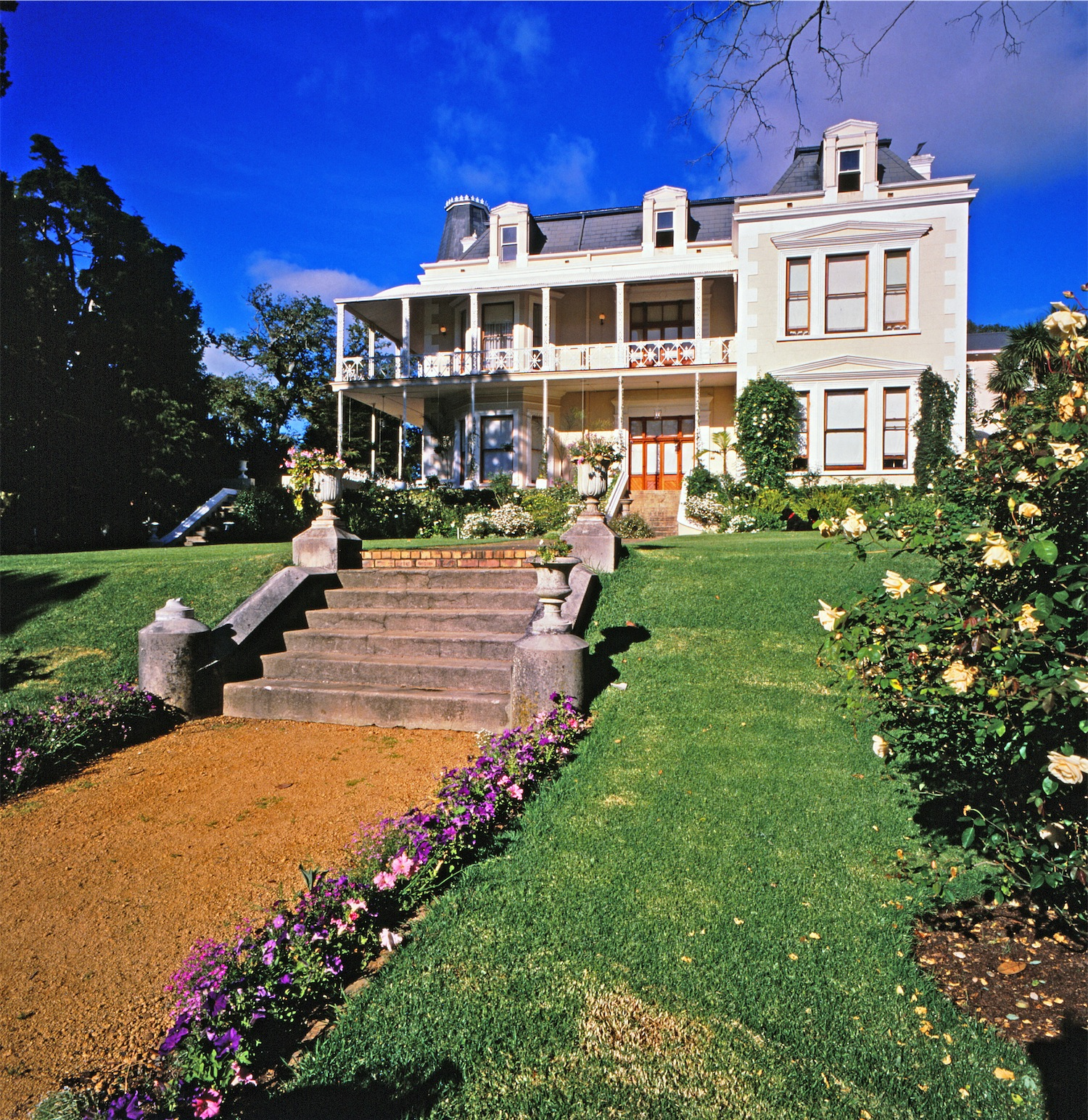 This media shows a South African Protected Site with SAHRA file reference 9/2/111/0107.